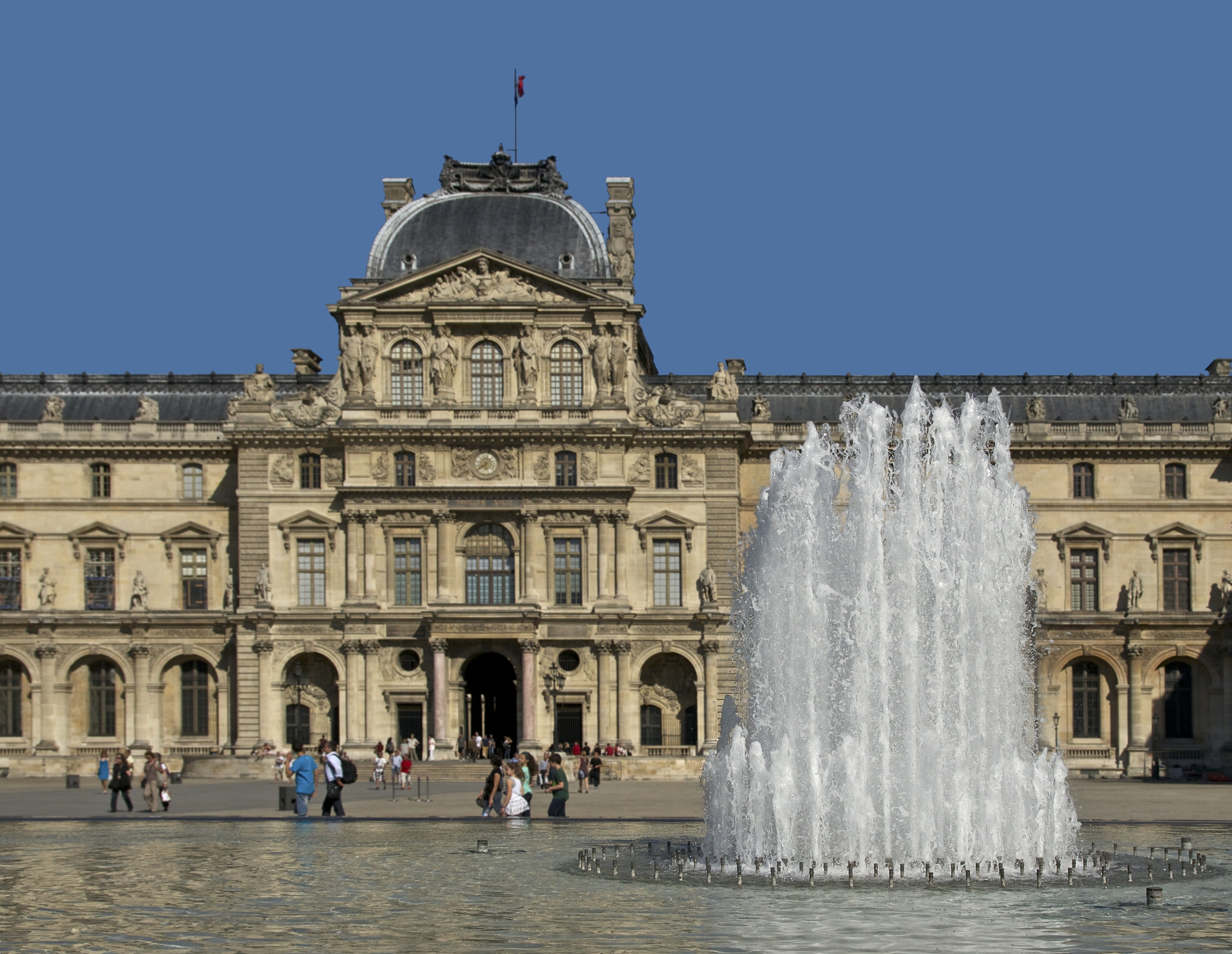 A fountain, Napoleon courtyard, Pavillon Sully in background, Louvre palace, Paris.